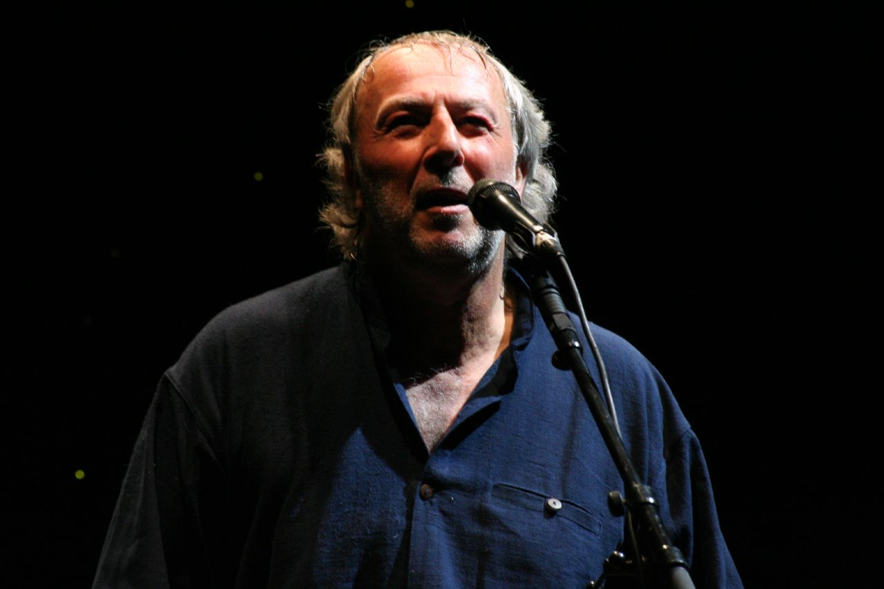 Gerry Conway & Fairport Convention: Cropredy Festival, Oxfordshire, 12 August 2006